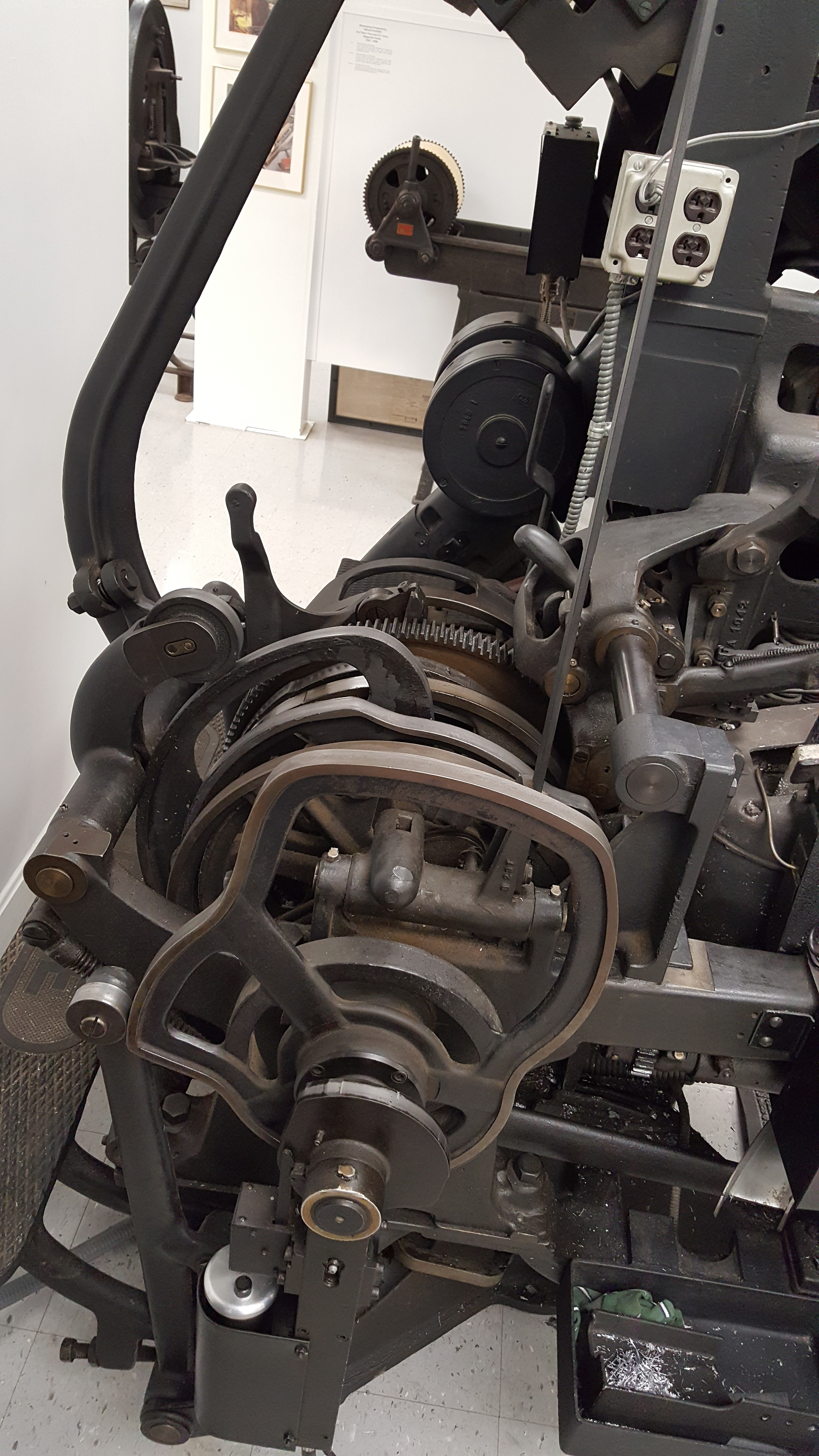 Linotype model 8 cam shaft